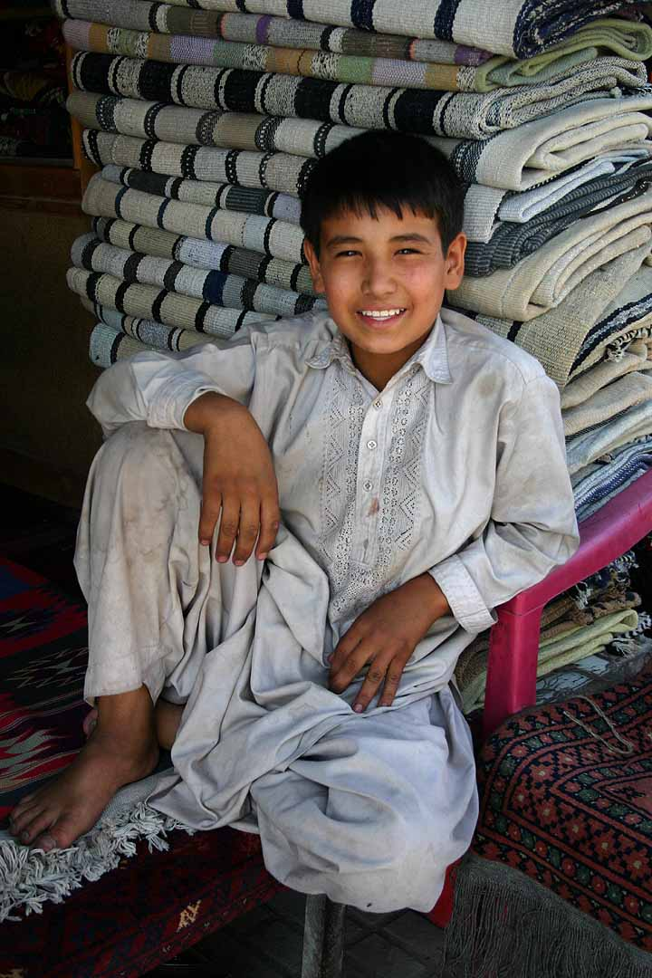 Grinning boy at a carpet vendor's in Afghanistan.